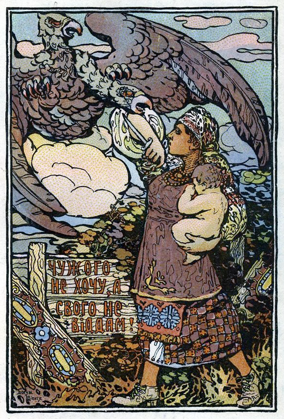 Color leaflet-poster by Bohush Shippikh, created after the announcement of the 3rd Universal (Declaration) of the Ukrainian People's Republic in late 1917. Published by the firm "Вернигора" in Kyiv.